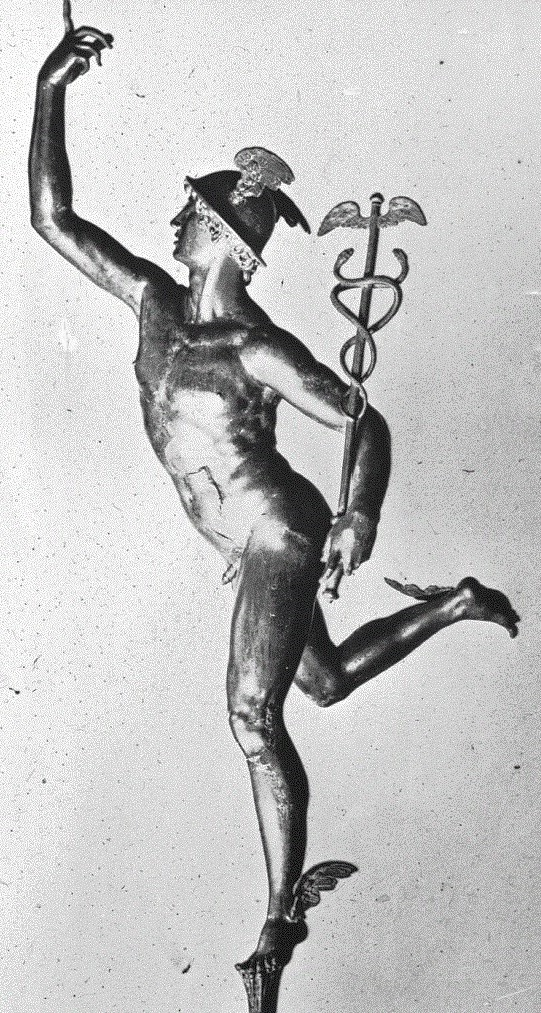 Mercury Statue by G. Bologne, photographed before 1923 by William Henry Goodyear.